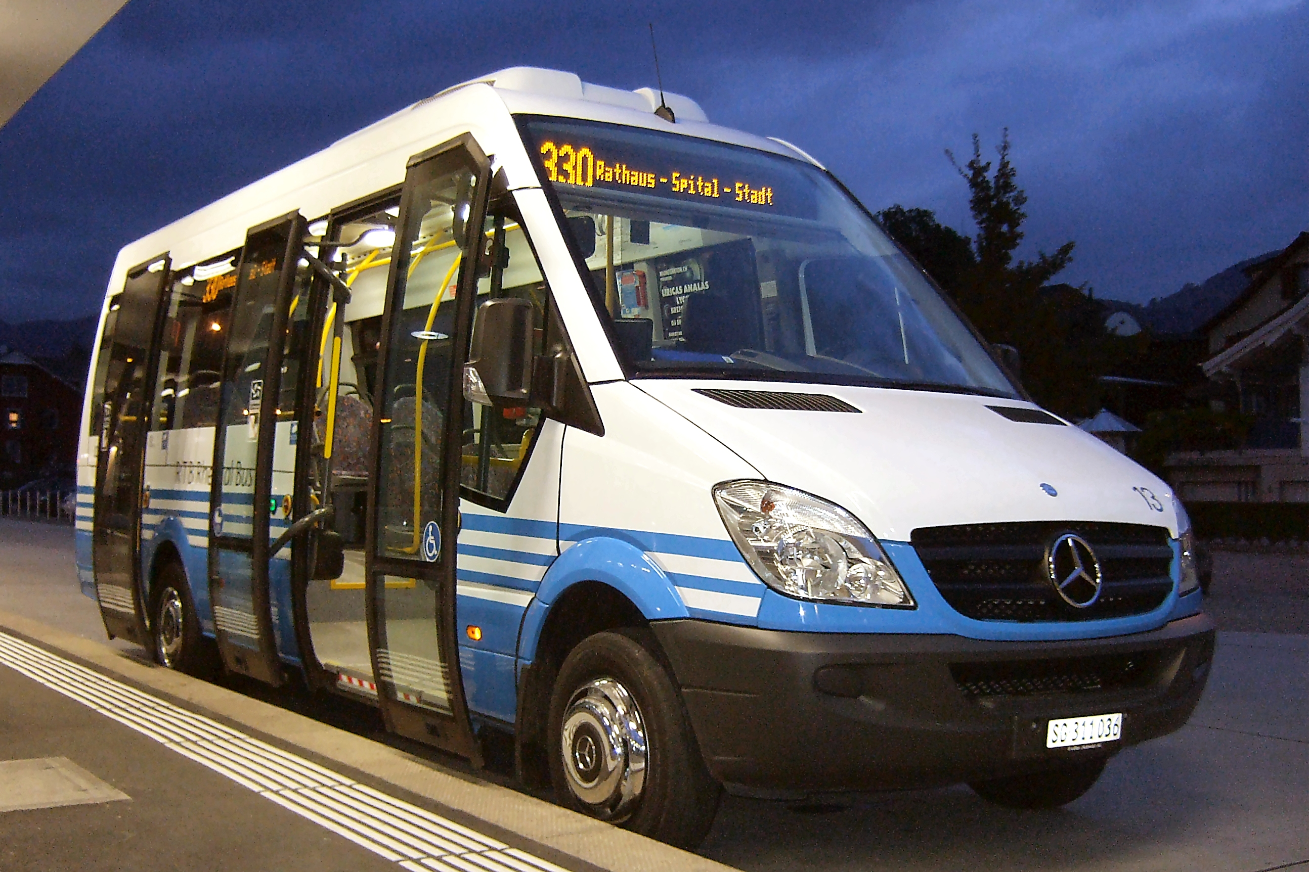 Since lately there is a bus with the number 13 of the public transport in the St. Gall Rhine Valley. It is one of the new Mercedes Sprinter City 65 minibuses (reg. SG 311 036), which were put into operation. Actually I wanted to photograph the bus on Sep 13 because of the number, but there was just a technical problem with the bus on that day. On the last course this evening at work with the No. 13, there were no passengers and I shot the photo. Station Altstätten, Switzerland, Sep 19, 2009.